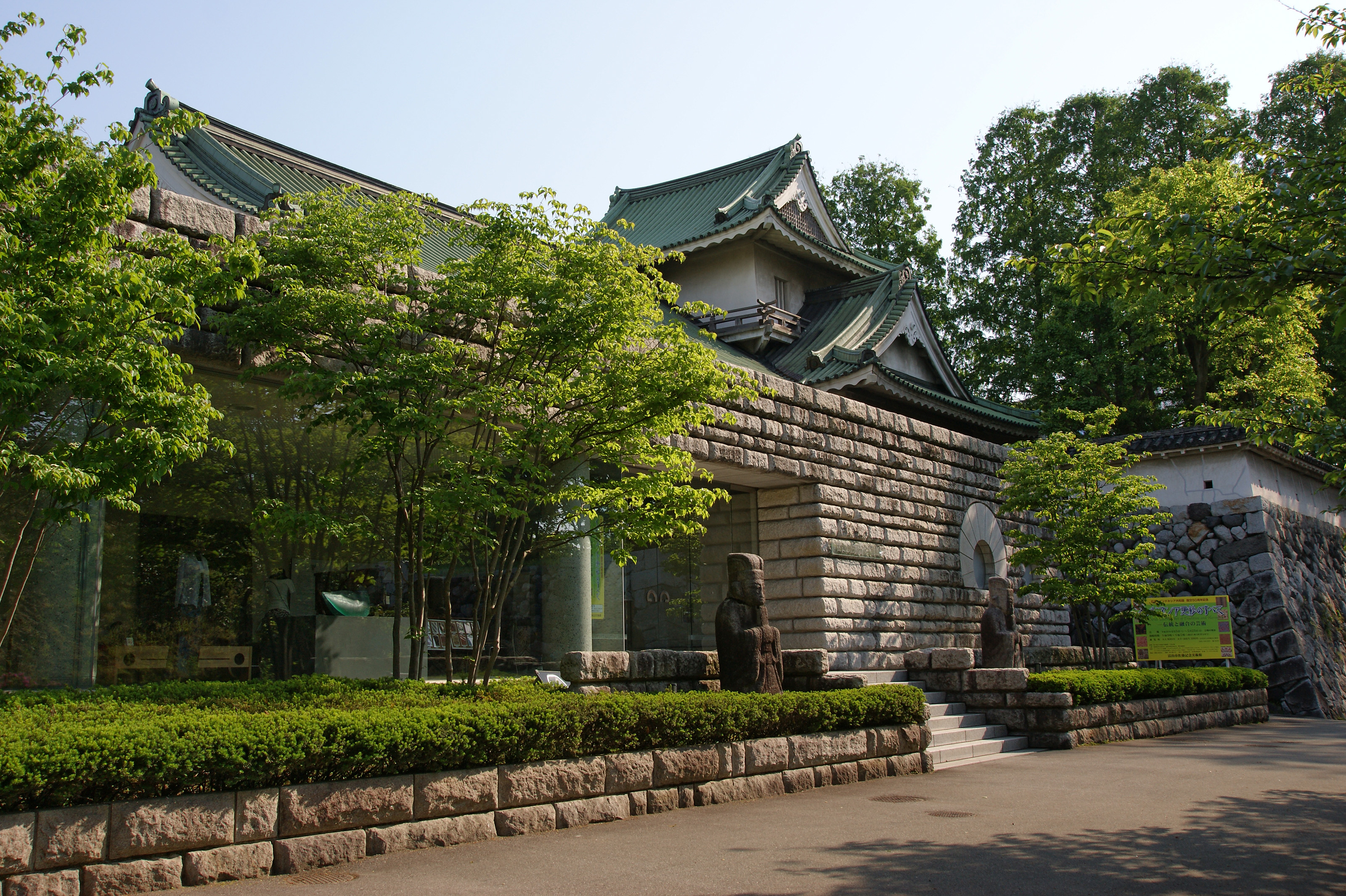 Sato Memorial Art Museum Toyama in Toyama, Toyama prefecture, Japan